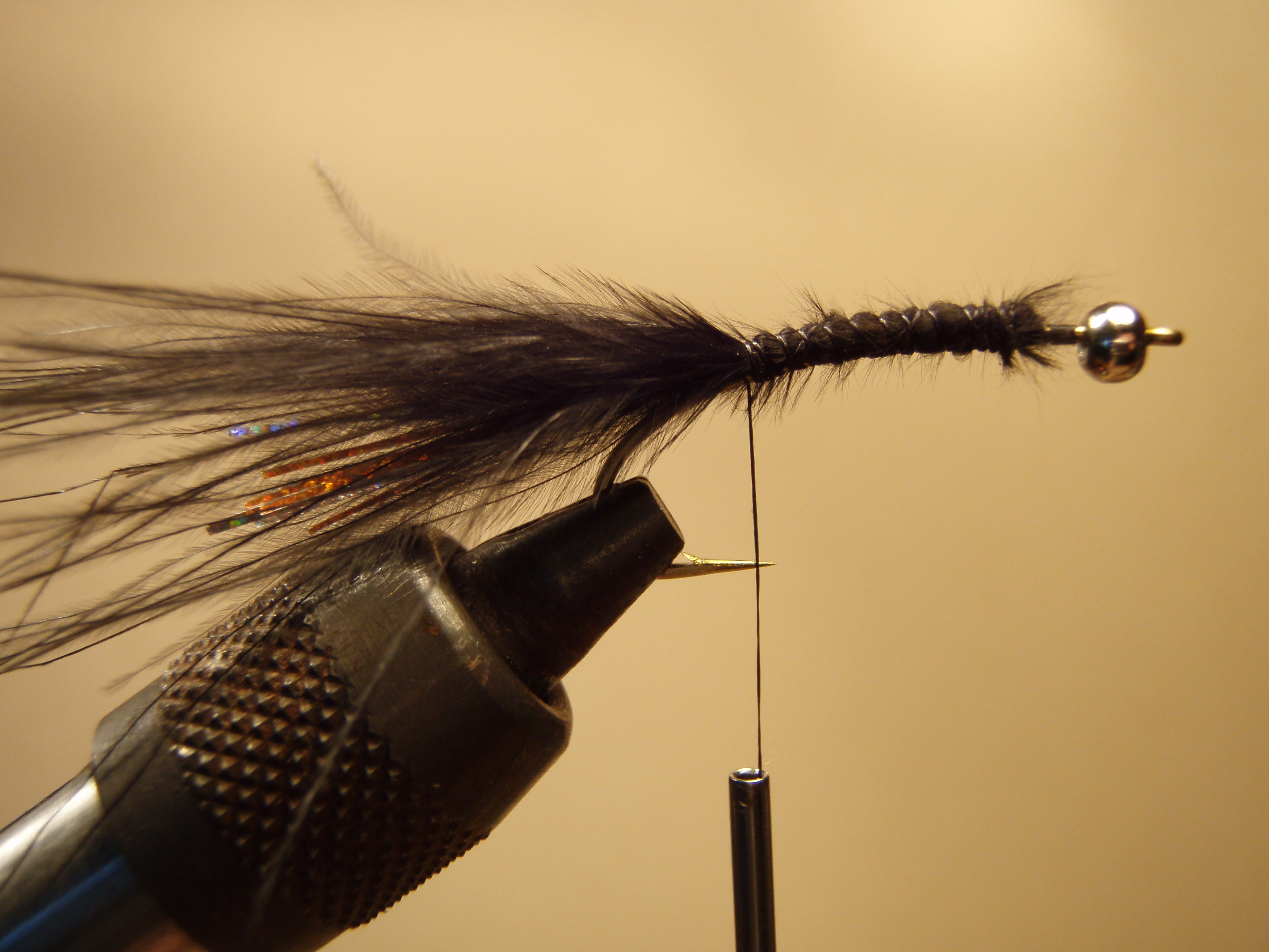 Fly Tying Process Step Two - Securing The Tail